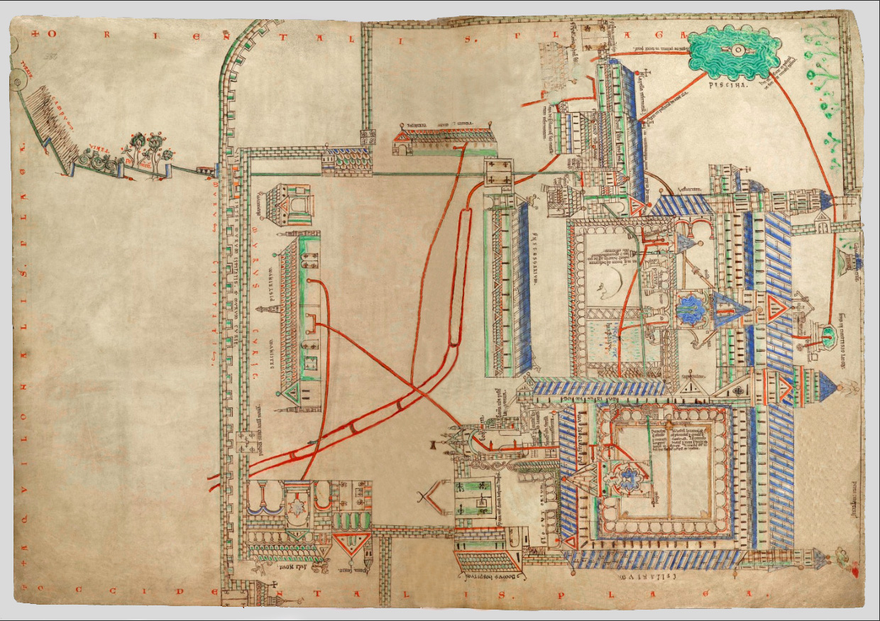 Waterworks of the Priory and Christ Church Cathedral in Canterbury. General drawing.